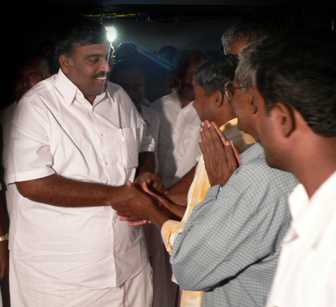 KP Anbalagan